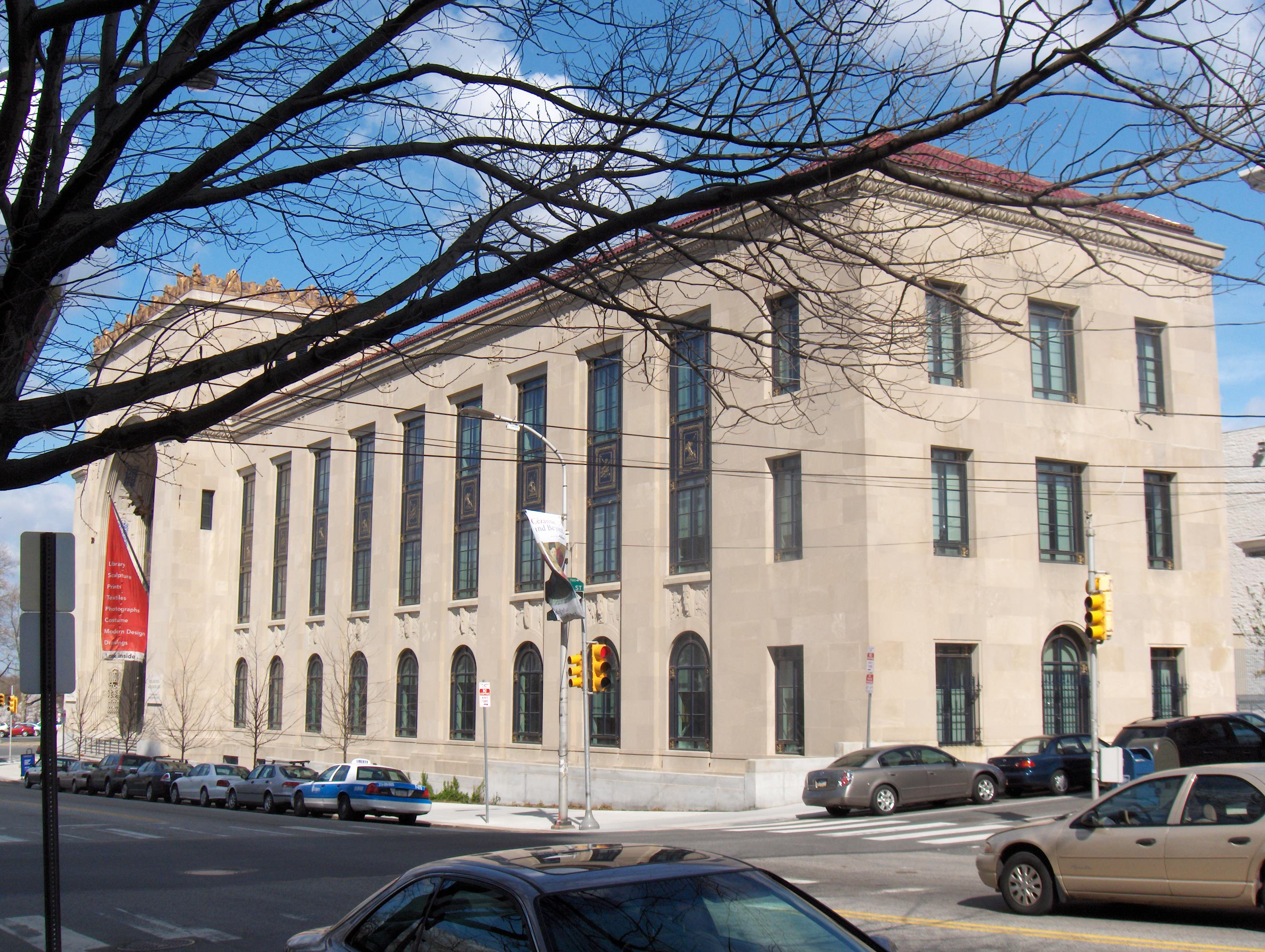 Fairmount Avenue, Fairmount, Philadelphia, PA 19130, looking west, 2500 block, Ruth and Raymond G. Perelman Building of the Philadelphia Museum of Art, formerly Fidelity Mutual Life Insurance offices